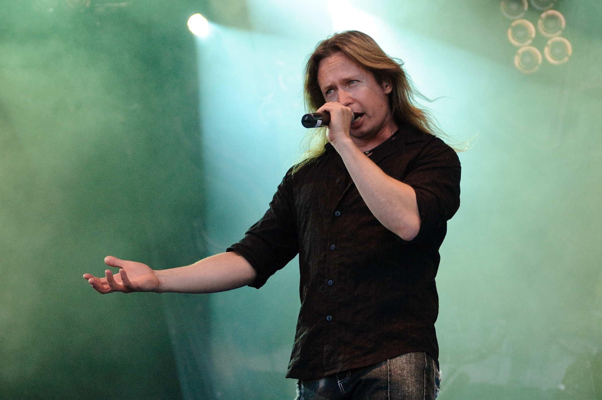 Vocalist Timo Kotipelto of Stratovarius performing at the 2009 Ilosaarirock festival in Joensuu, Finland.